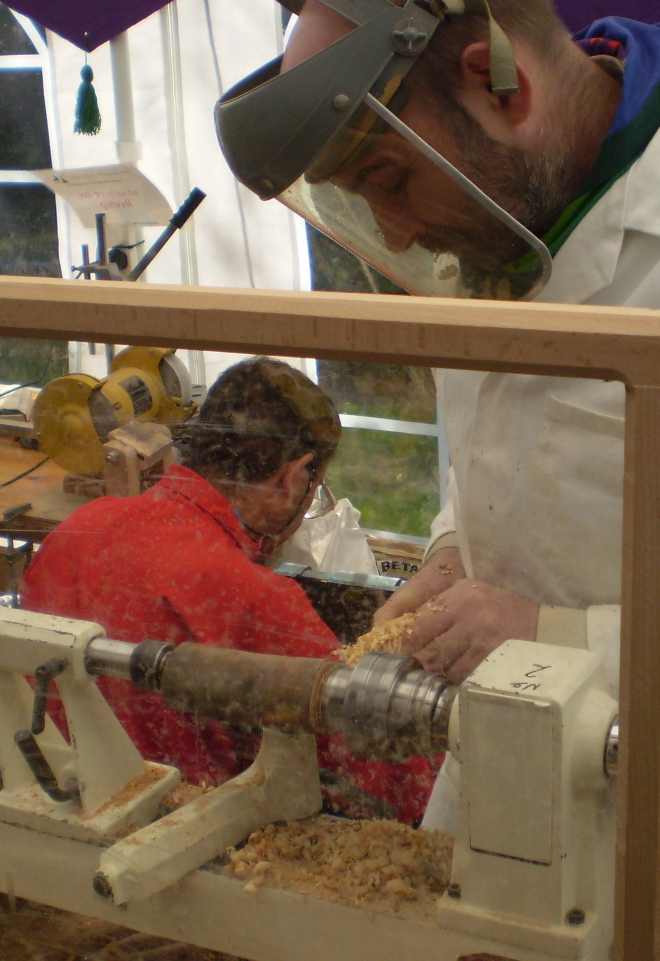 Gilwell Park Scouting skills activities at the 21st World Scout Jamboree